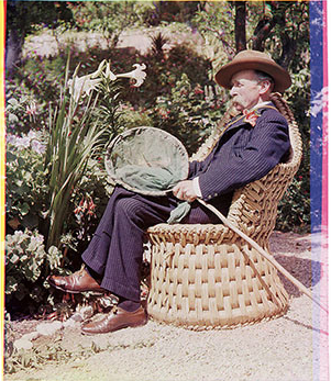 Colonel William Willoughby Cole Verner in Gibraltar, 1903, by Sarah Angelina Acland. This is a digital colour composite of three black-and-white colour separation photographs Acland took through red, green and blue filters, presumably for use with the Sanger Shepherd colour transparency printing process.